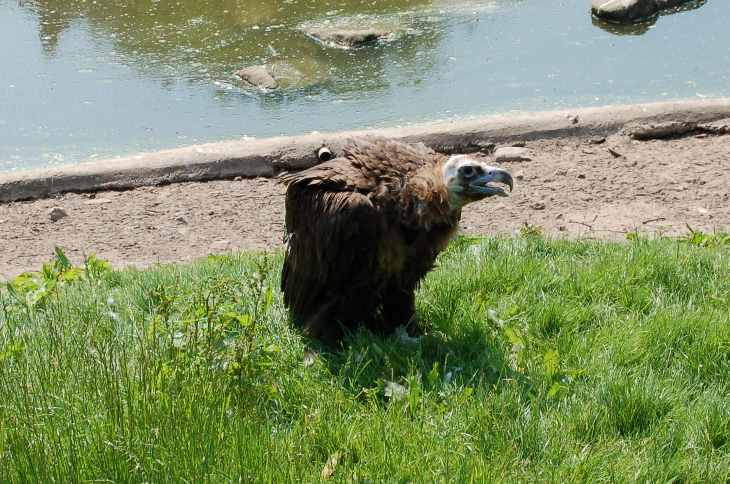 A vulture at Chester Zoo